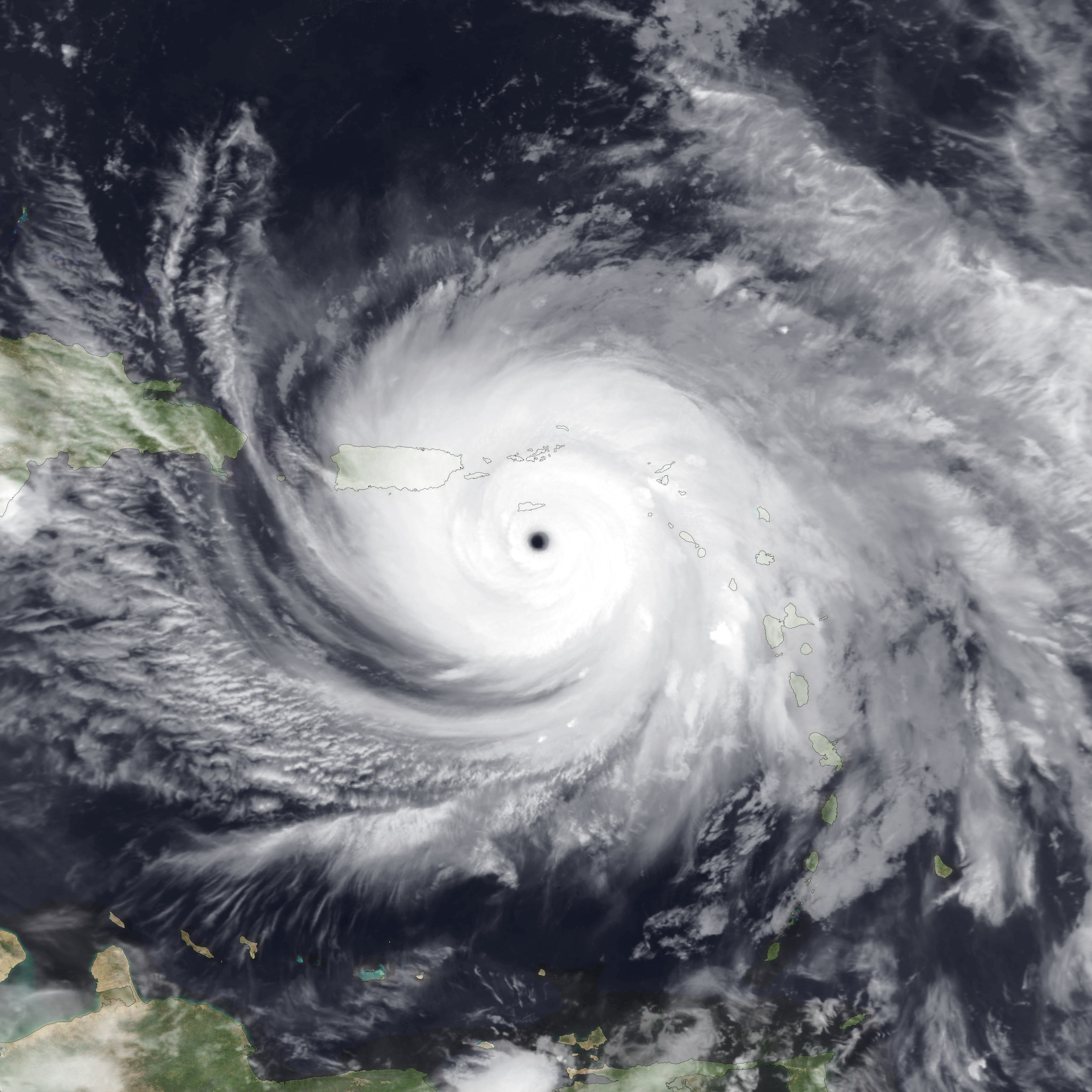 Hurricane Maria at 02:38 UTC on September 20, 2017 as seen by the MODIS instrument onboard NASA's Terra satellite. At the time, Maria was a Category 5 hurricane with winds of 175 mph (280 km/h) and a minimum pressure of 910 mbar (hPa; 26.87 inHg), making it one of the strongest Atlantic hurricanes ever recorded. The outer eyewall of Maria was moving over St. Croix as the hurricane moved towards the west-northwest. A coastline-less version of the image can be found here: File:Maria 2017-09-20 0238Z (Coastline-less).jpg